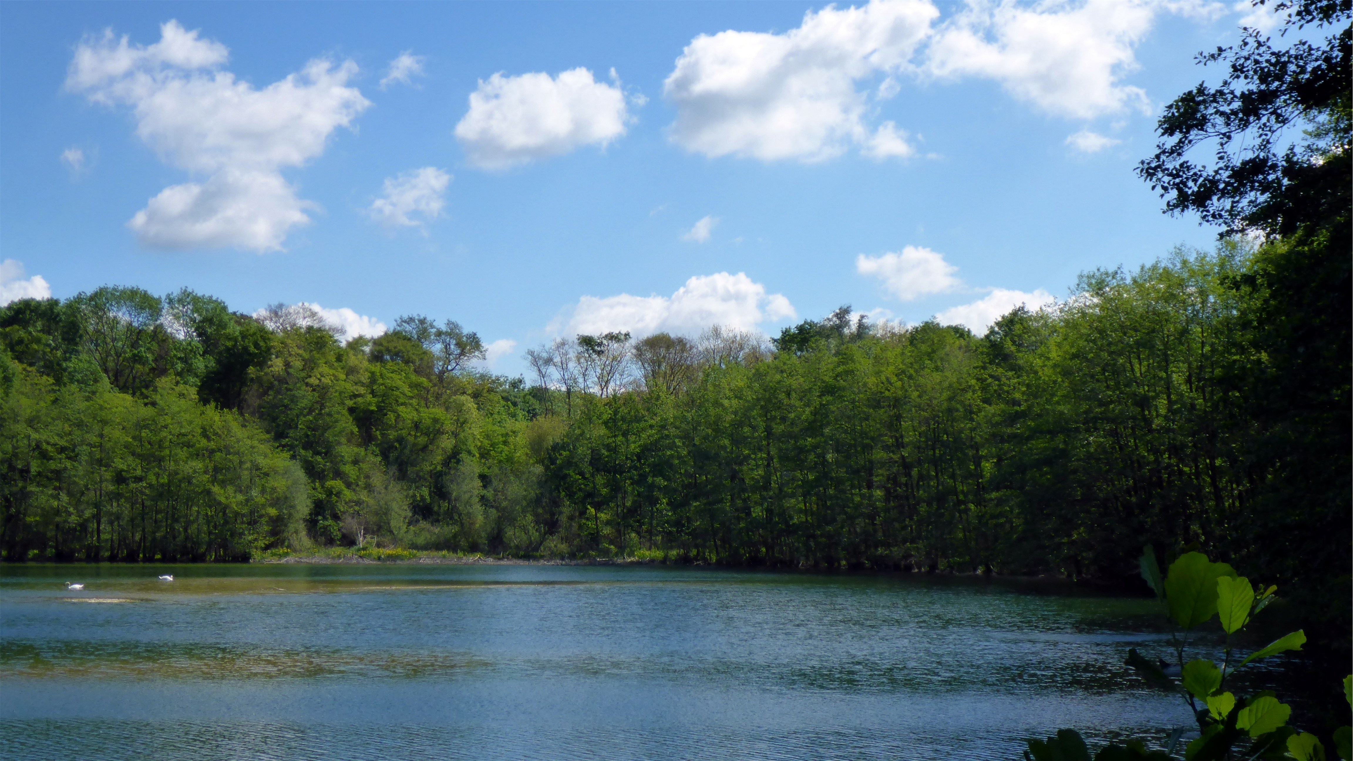 Naturschutzgebiet „Erlachsee“ is a nature reserve in Baden-Württemberg, Germany.